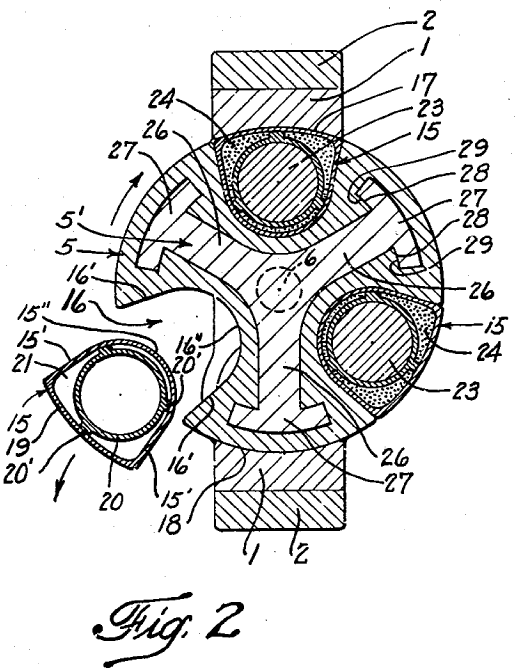 Figure 2 of US patent 2,847,748, for a pre-stressed open chamber gun, by David Dardick